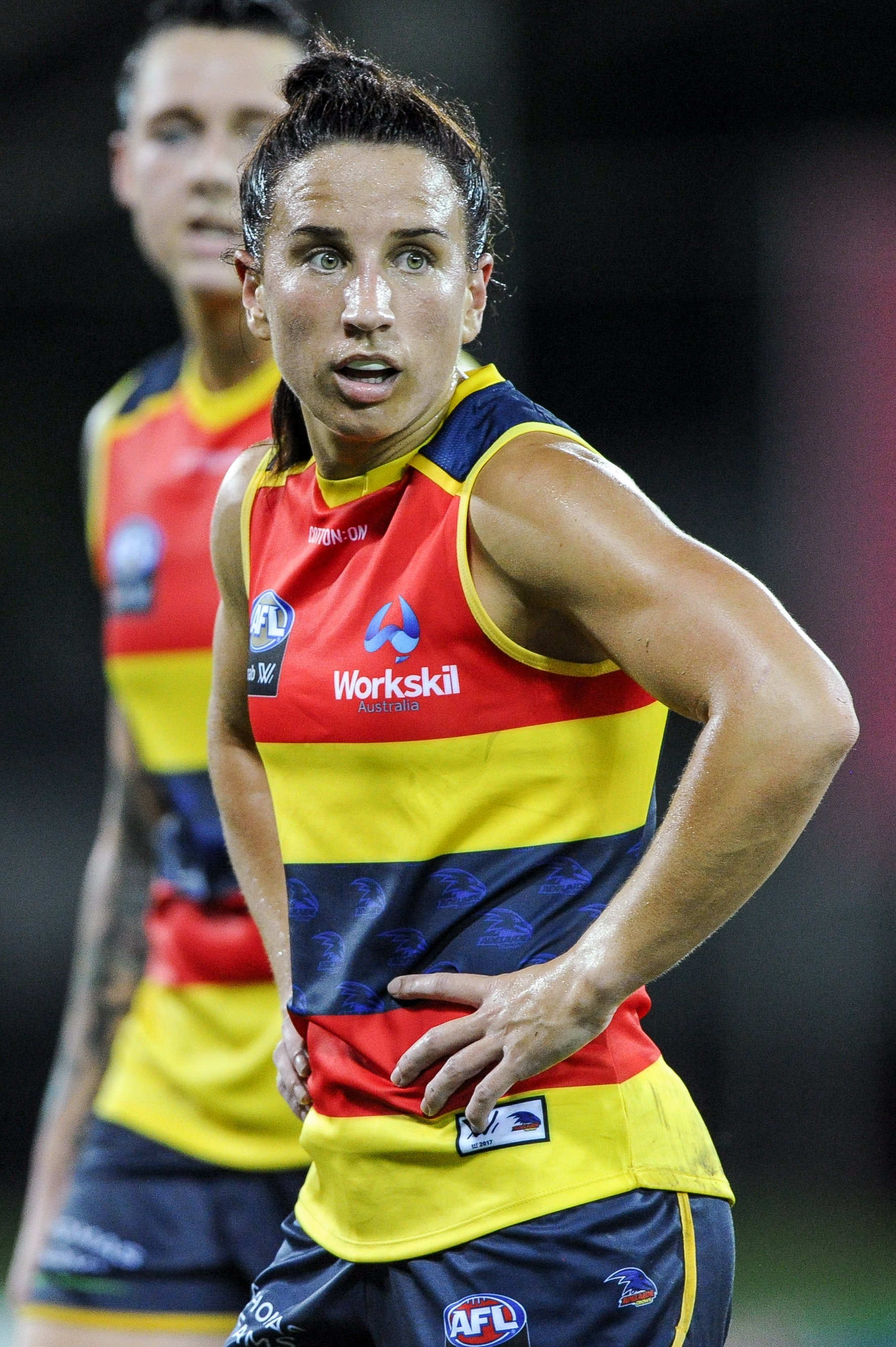 Jessica Sedunary in the AFL Women's preseason match between the Adelaide Football Club and Fremantle Football Club on 20 January 2018 at TIO Stadium.